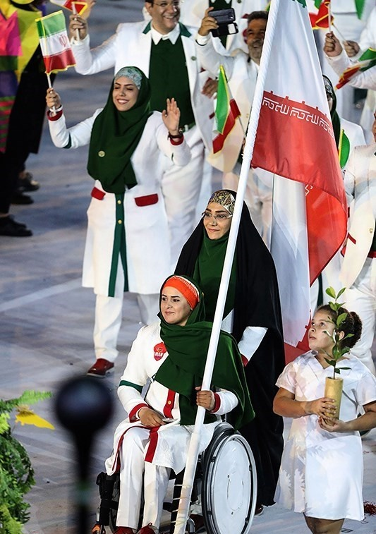 Iran delegation in Rio